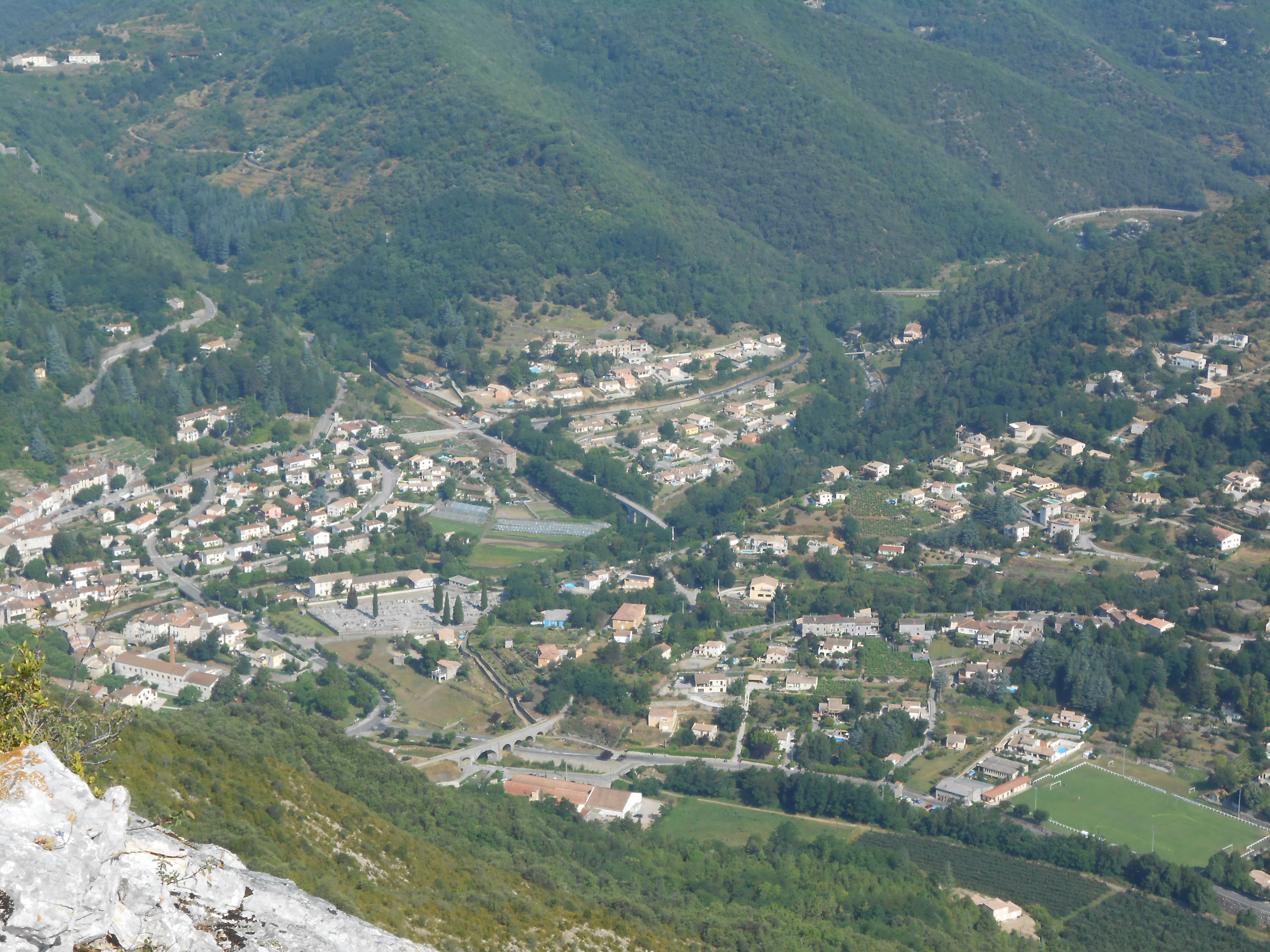 View Sumene, Ranc Banes.